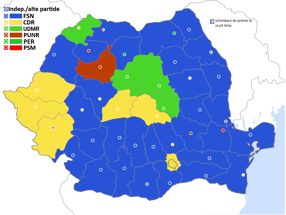 1992 Romanian local elections: map based on the party with the biggest number of votes in the county(county council) and on the party of the elected mayors of county residences and the capital of Romania. Legend: FSN CDR UDMR PUNR PER PSM Independents/other parties